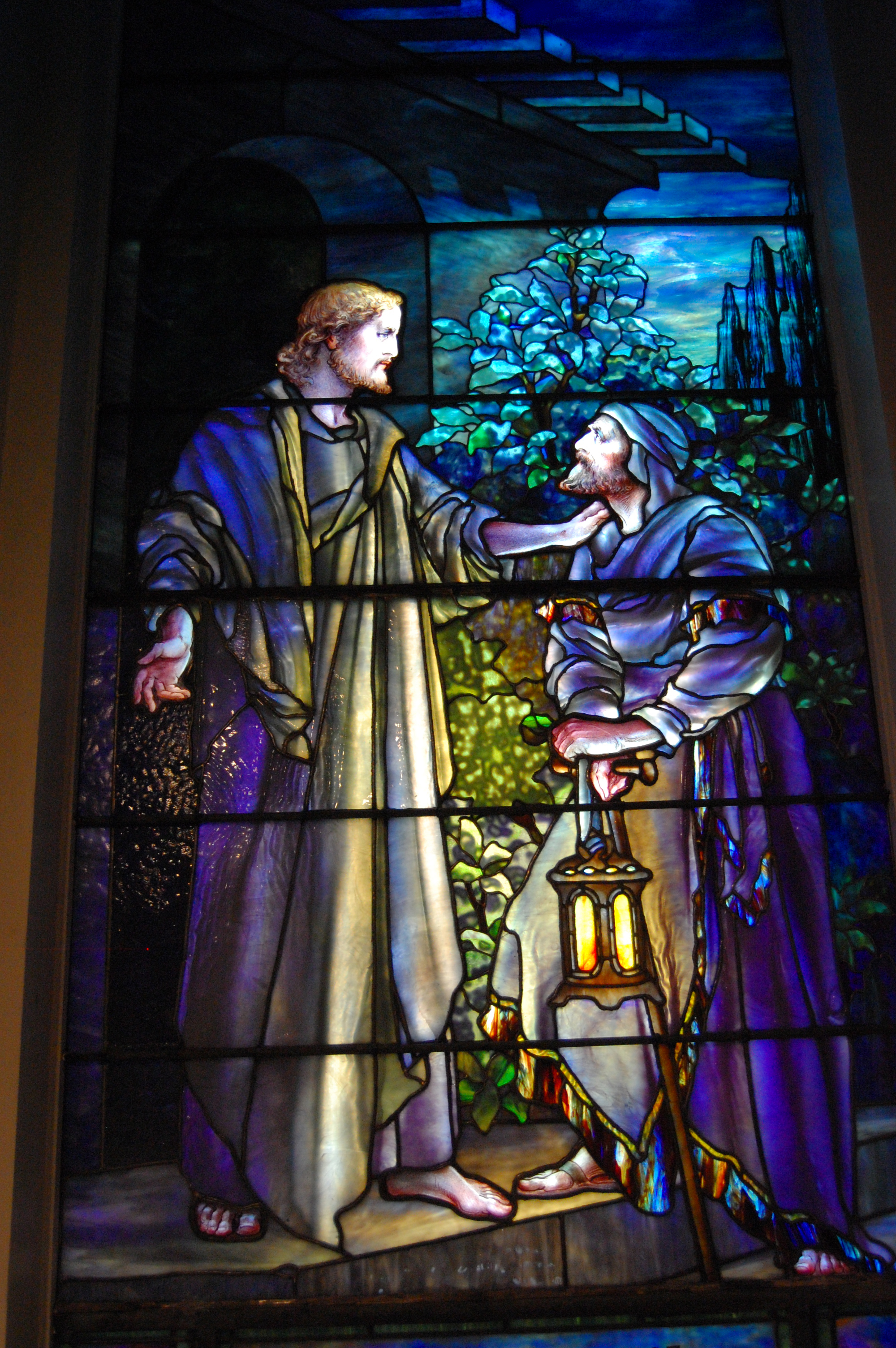 Louis Tiffany stained glass Nicodemus Came to Him by Night in Lockport, NY, First Presbyterian Church